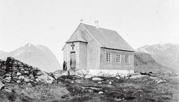 Church of Ammassivik (Sletten), south Greenland, 1892